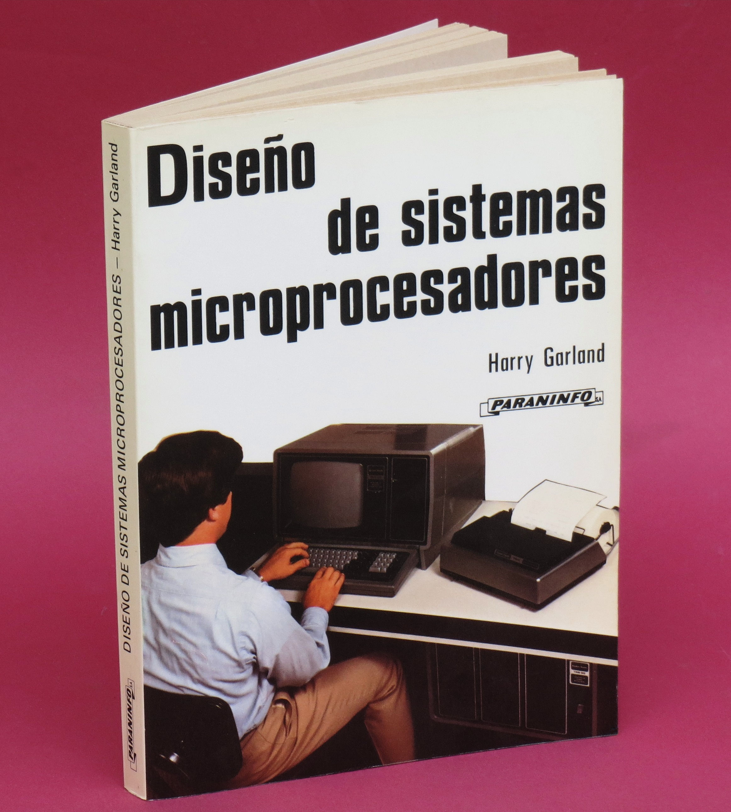 "Diseño de sistemas microprocesadores" (1982) written by Harry Garland. The first Spanish language book on microprocessor system design.